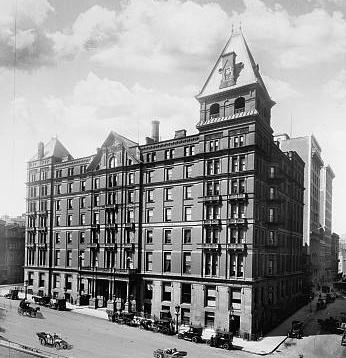 The Murray Hill Hotel, at Park Avenue between 40th and 41st Streets, in Manhattan, New York City, designed by Stephen Decatur Hatch and built in 1884, then razed in 1947. Title: [New York, N.Y., Murray Hill Hotel, Park Ave., 40th and 41st St.] Related Names: Detroit Publishing Co. , publisher Date Created/Published: [between 1900 and 1910] Medium: 1 negative : glass ; 8 x 10 in. Part of: Detroit Publishing Company Photograph Collection Reproduction Number: LC-D4-40376 (b&w glass neg.) Call Number: LC-D4-40376 [P&P] Repository: Library of Congress Prints and Photographs Division Washington, D.C. 20540 USA Format: Dry plate negatives.